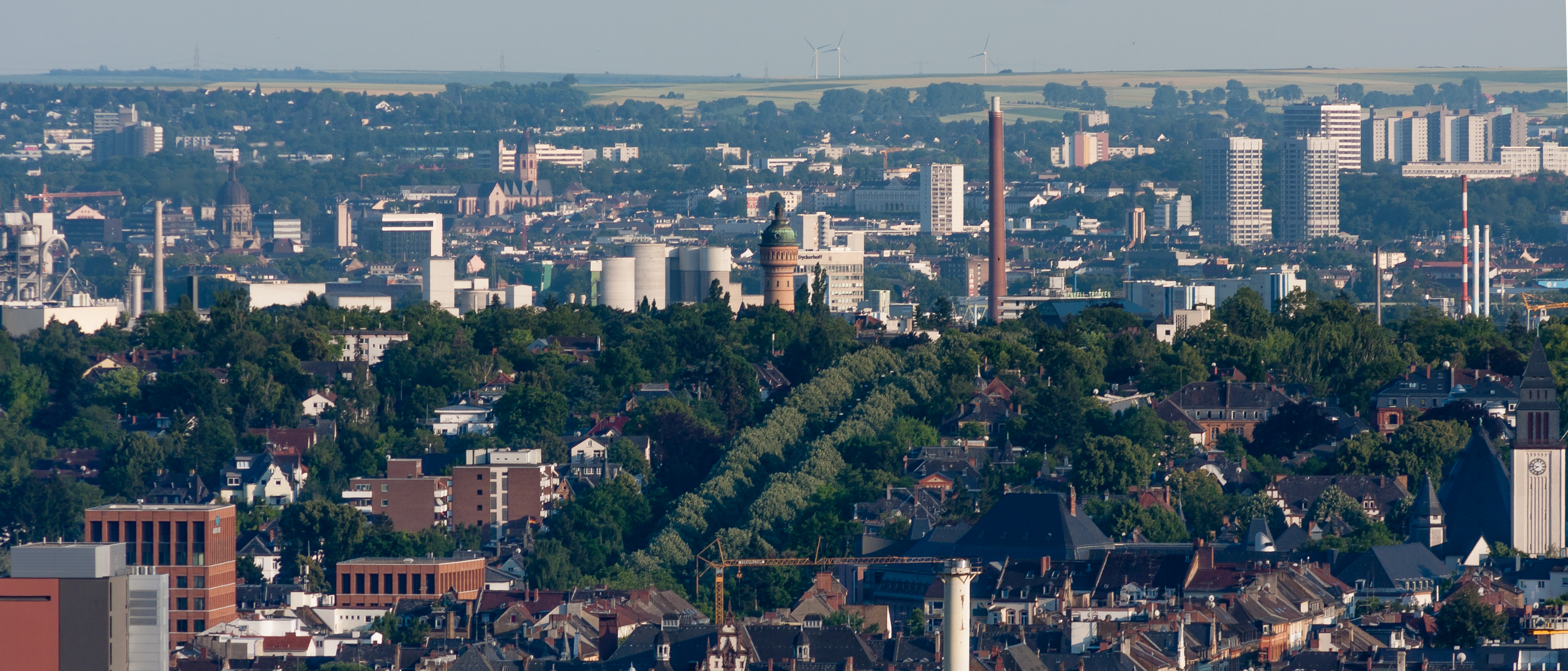 Adolfshöhe (Mosbacher Berg). View from the Neroberg. In the background Mainz